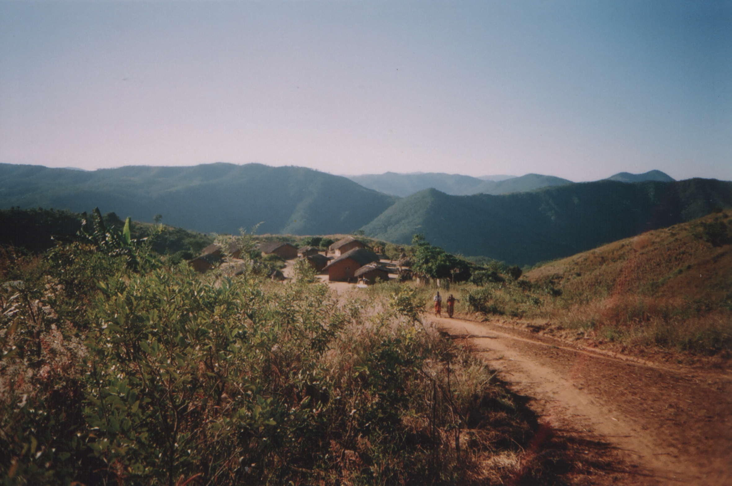 Village in the Hills, North Malawi